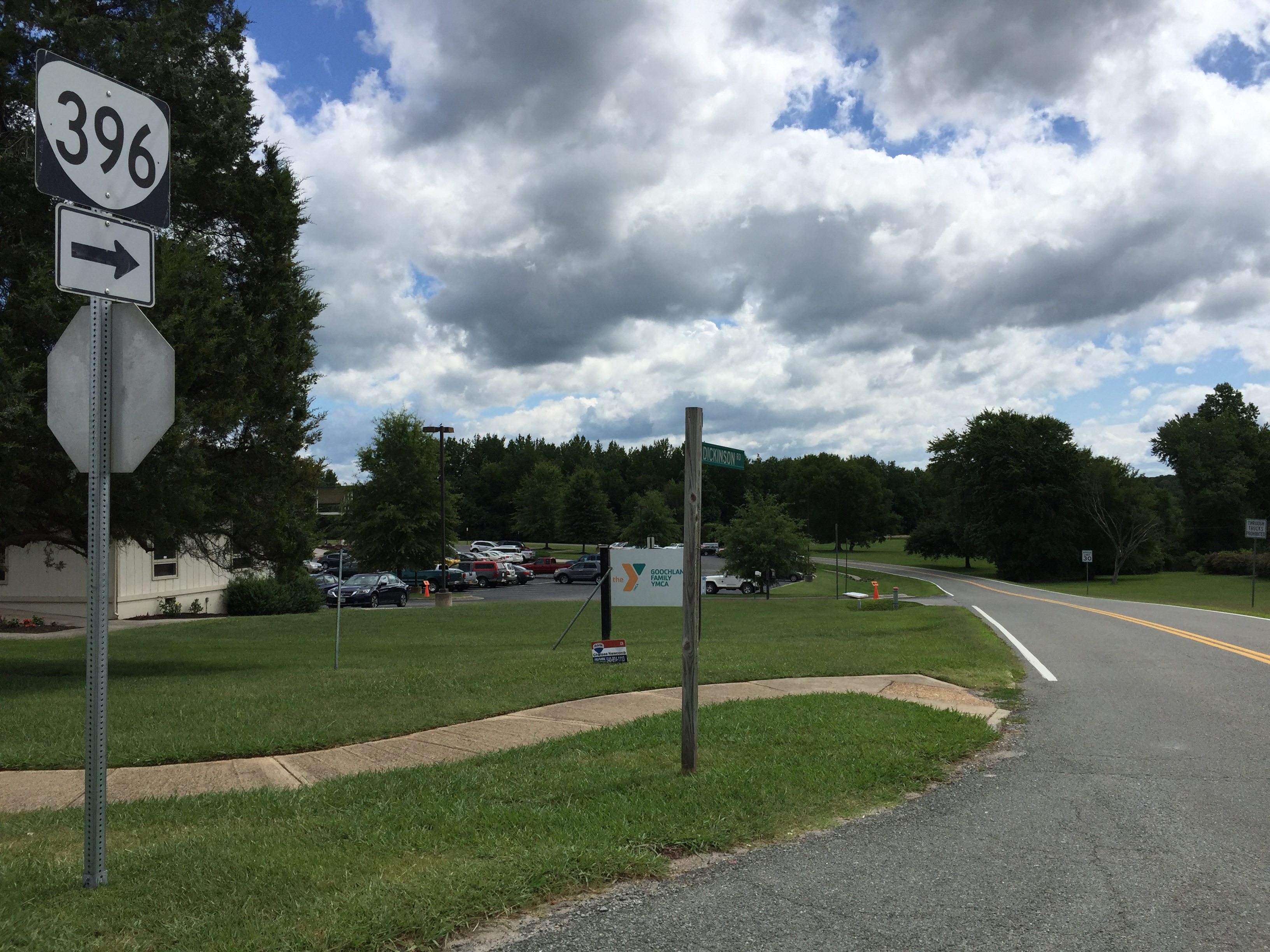 View north along Virginia State Route 396 (Dickinson Road) at U.S. Route 522 and Virginia State Route 6 (River Road) in Goochland, Goochland County, Virginia